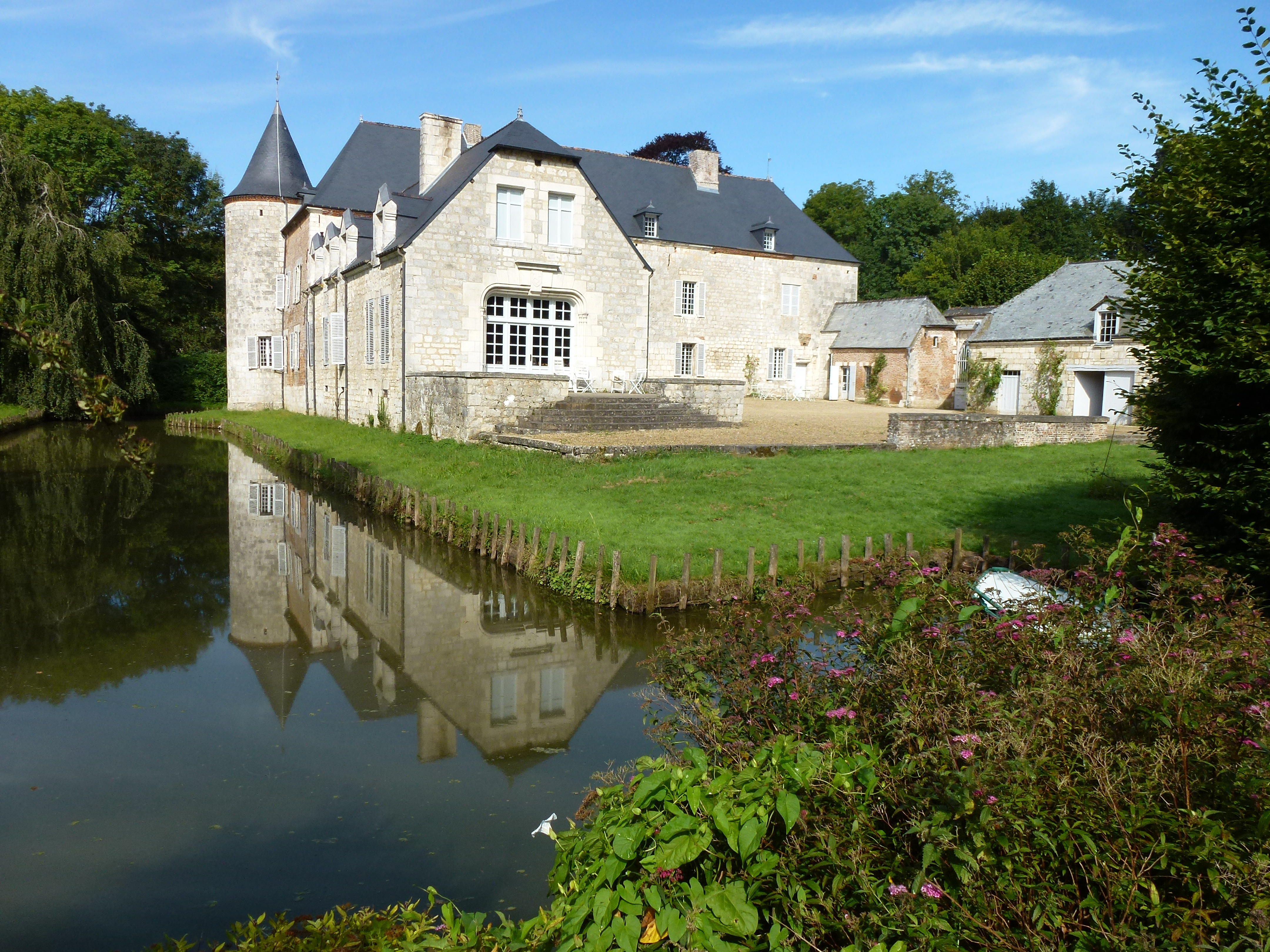 Rumigny (Ardennes) château Cour des Prés 04